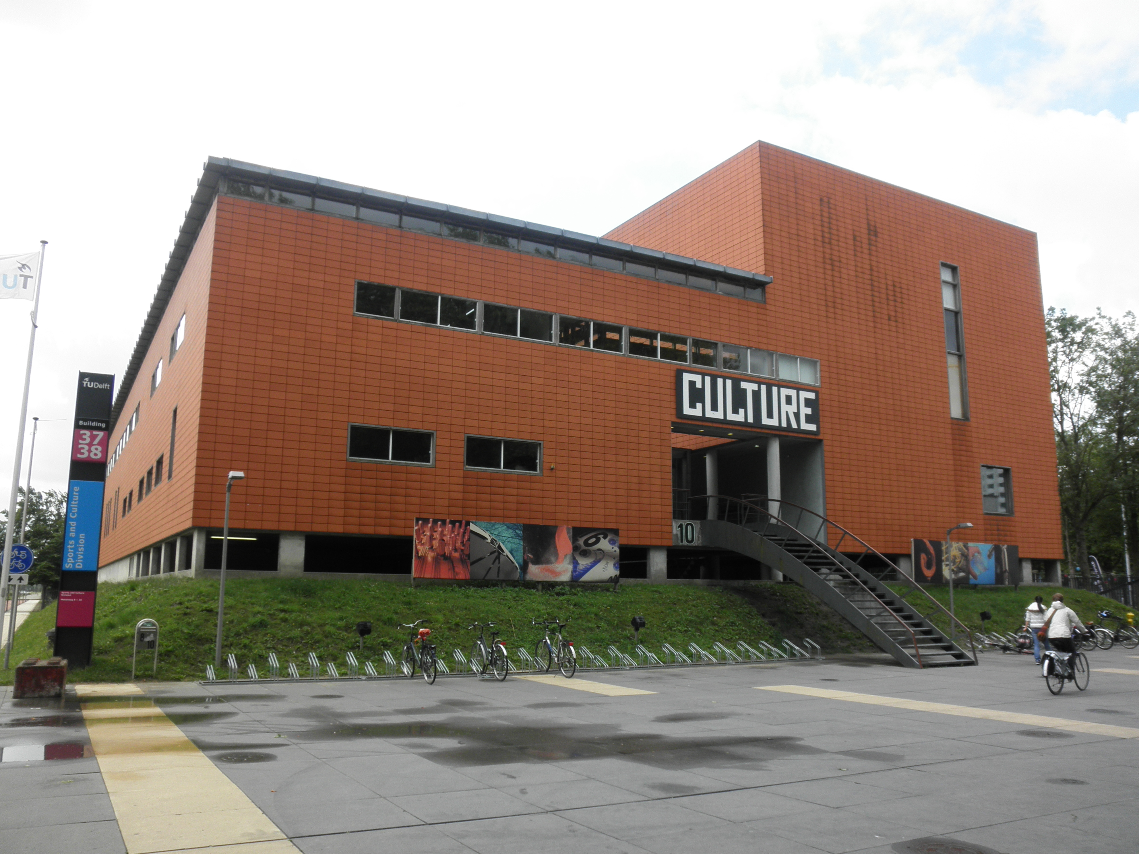 The front entrance to the TU Delft Cultural Center - 2011 Delft, The Netherlands